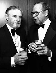 The former Australian cricketers Colin McCool (left) and Arthur Morris (right), taken in 1979.